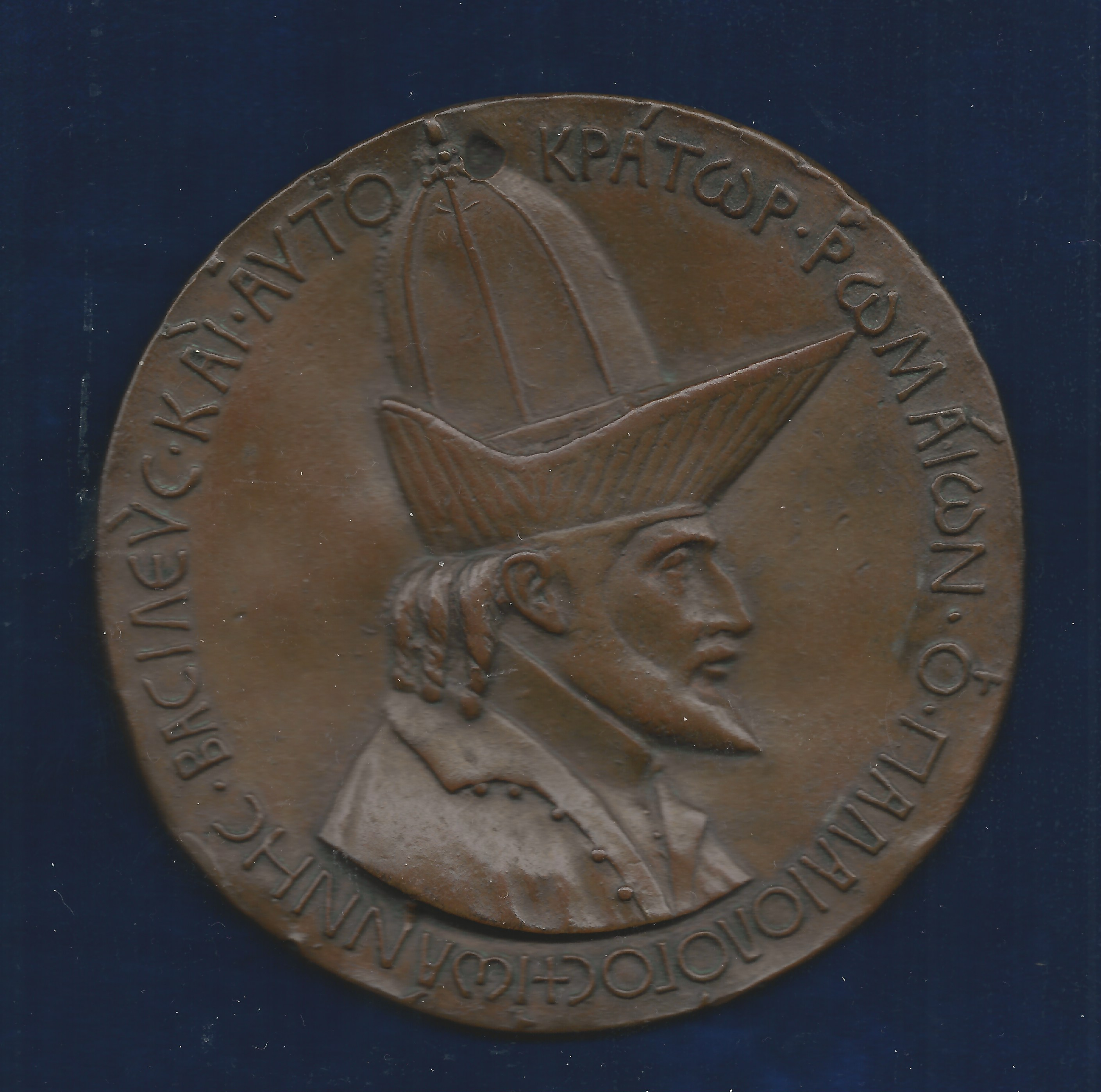 ND medallion (1439) d. = 101 mm. John VIII Palaiologos, Byzantine Emperor, 1425 to 1448 This emperor visited Florence in 1439 Bust r., around (in Greek): “John the Palaiologos, basileus and autokrator of the Romans” / uniface electrotype medallion. Forrer VII, p. 302-304 Medallist: Filarete (Antonio Averlino), 1400 Florence - 1469 Rome? Condition: EXTREMELY FINE